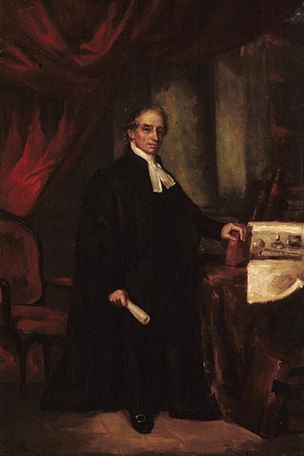 Sir Brenton Halliburton. 1849. By Albert Gallatin Hoit. oil on canvas. National Gallery of Canada.